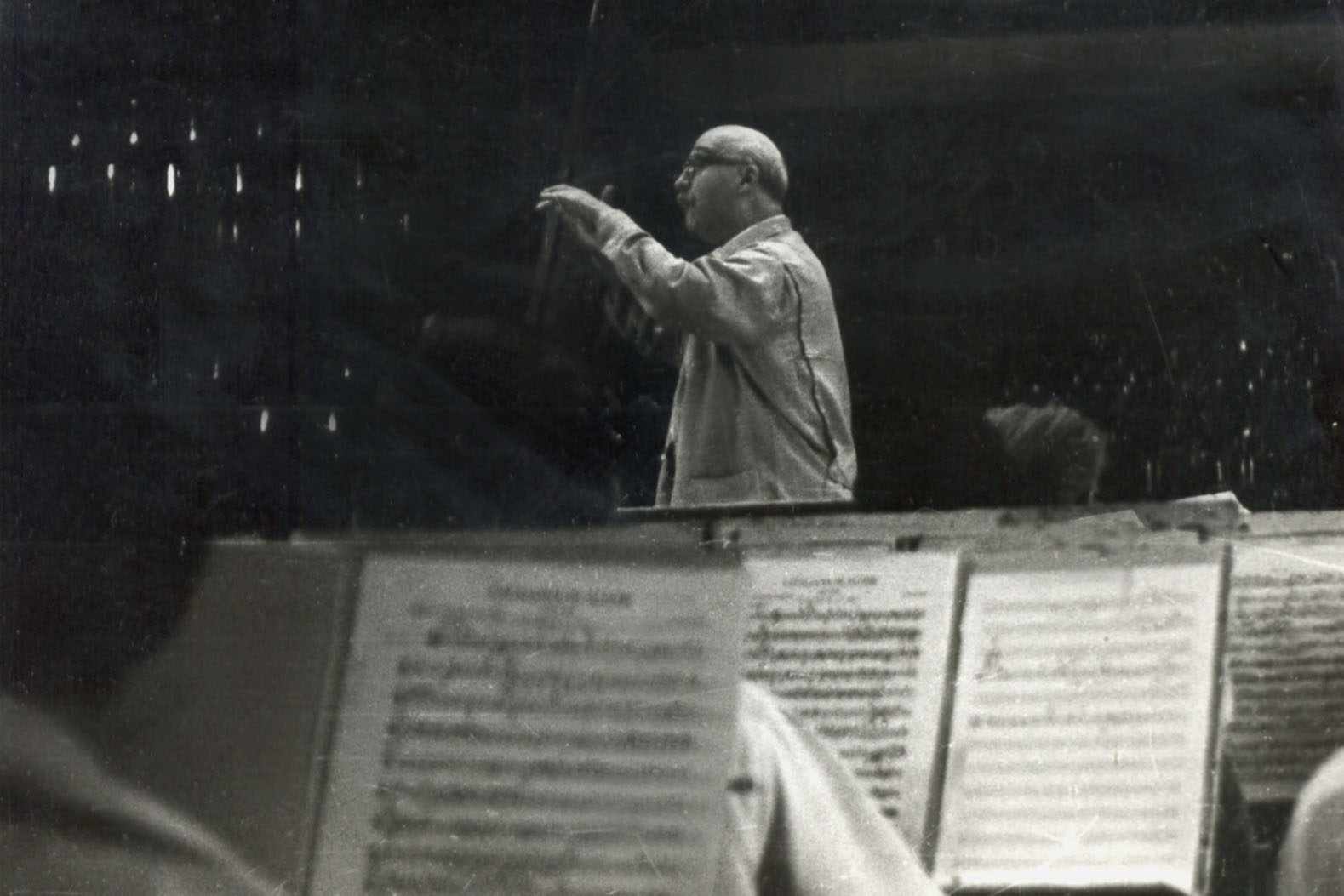 Italian conductor Carlo Zecchi at the rehearsal in Kharkiv in 1974